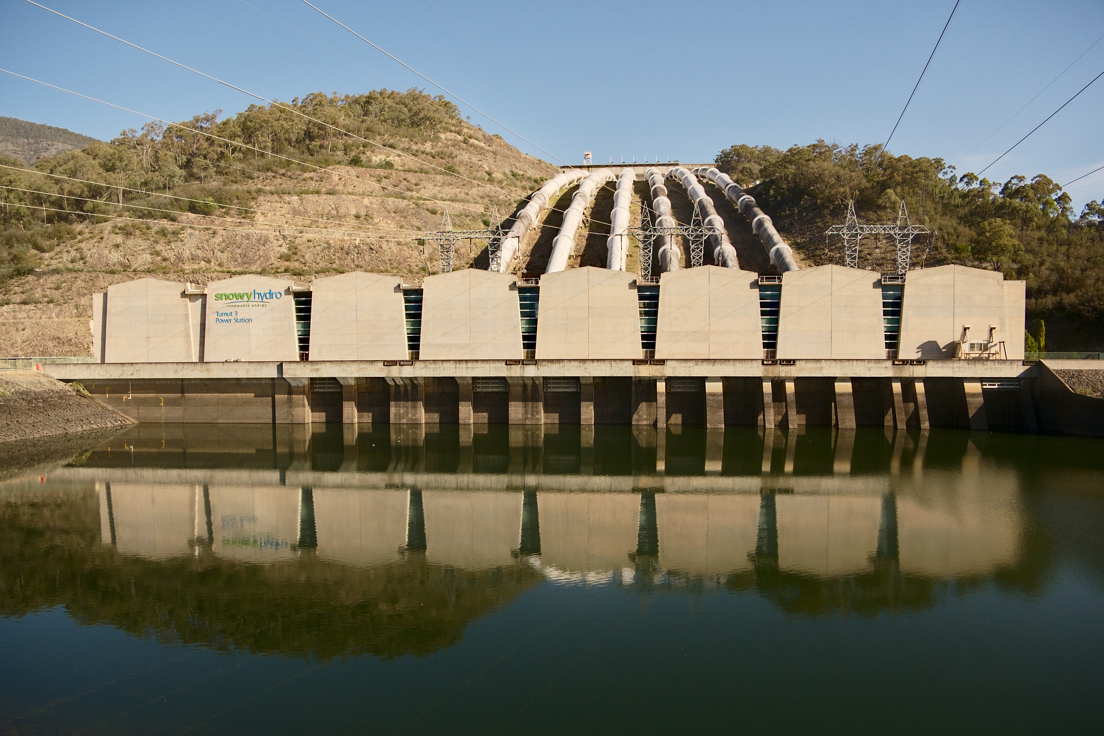 Tumut 3 power station, which gets its energy from water coursing down the six white pipes from Talbingo Reservoir. This image was taken on a lazy summer afternoon when the station wasn't operating, hence the rather still water.